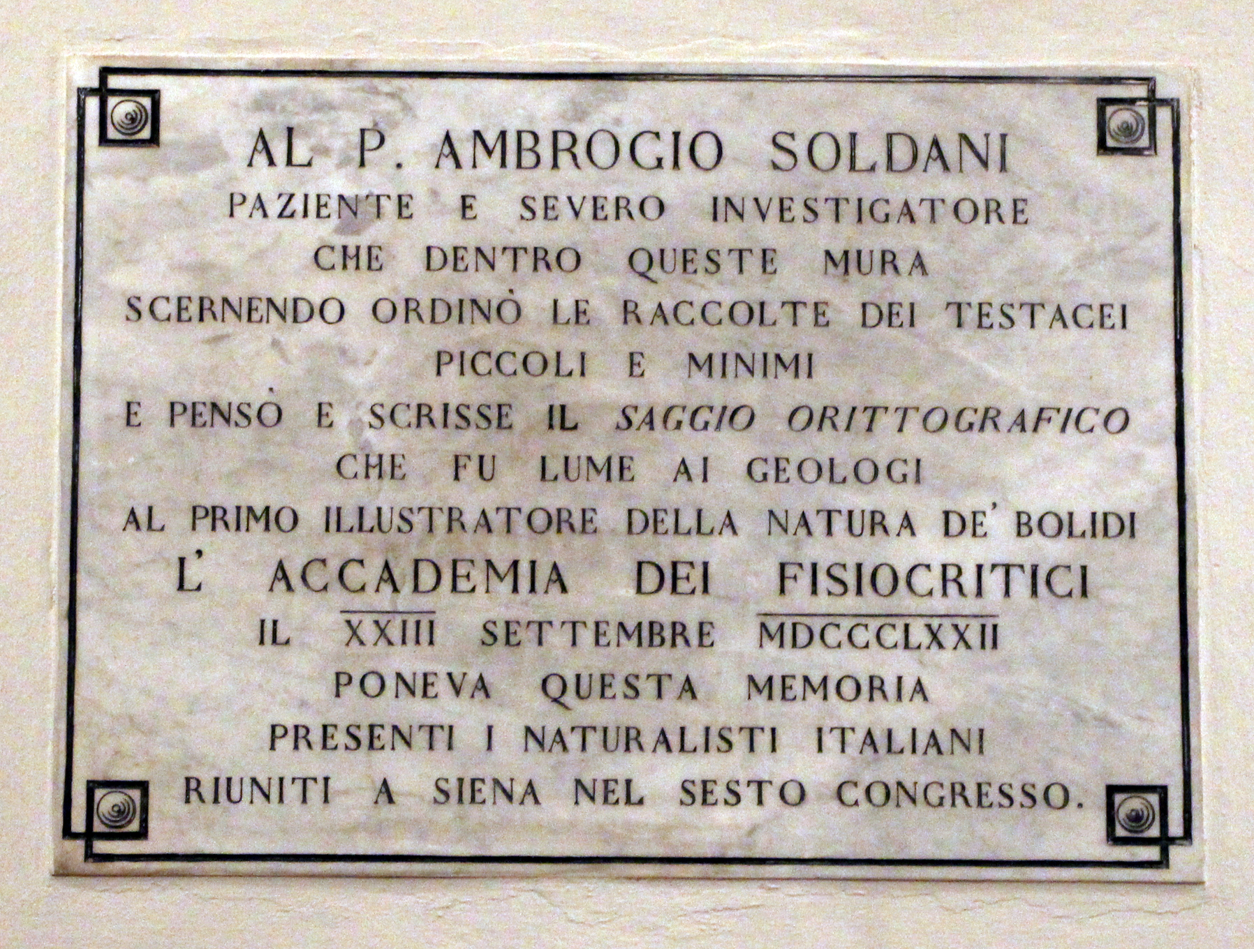 Accademia dei Fisiocritici Museums